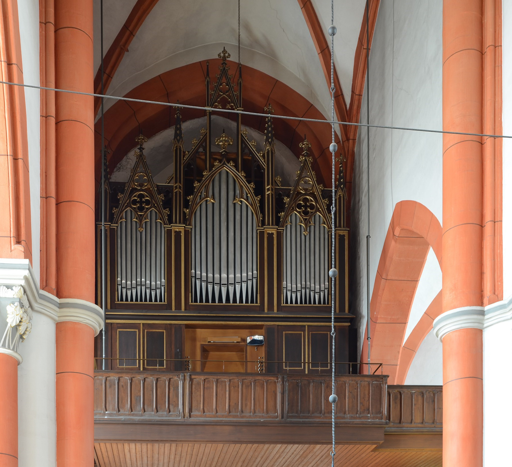 Einbeck (Lower Saxony, Germany) – Lutheran Saint James Church – pipe organ This is a photograph of an architectural monument.It is on the list of cultural monuments of Einbeck This photograph was taken with a Nikon D7000